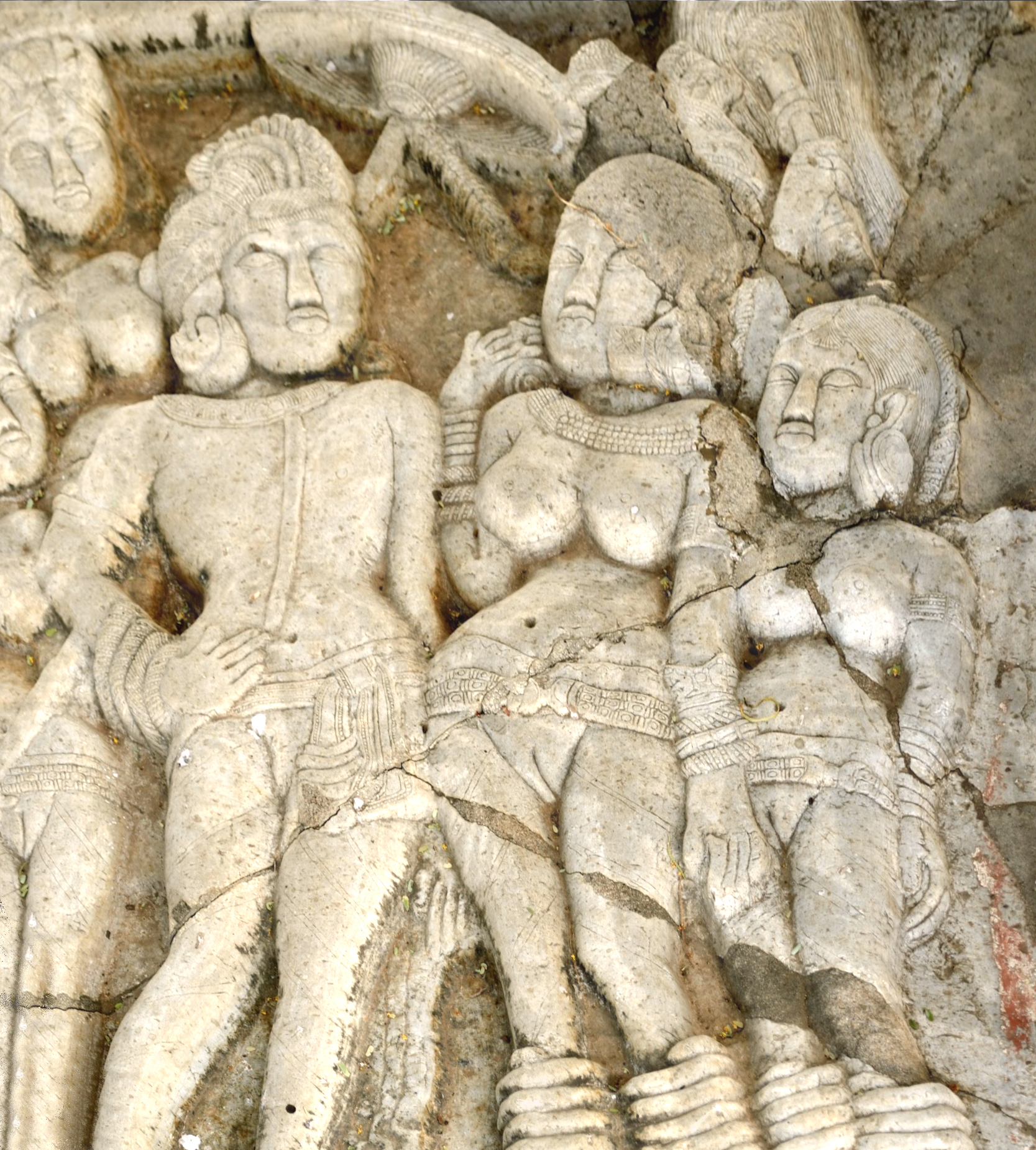 Ashoka with his Queens at Sannati-Kanaganahalli Stupa. The inscription "Raya Asoka" on the relief.